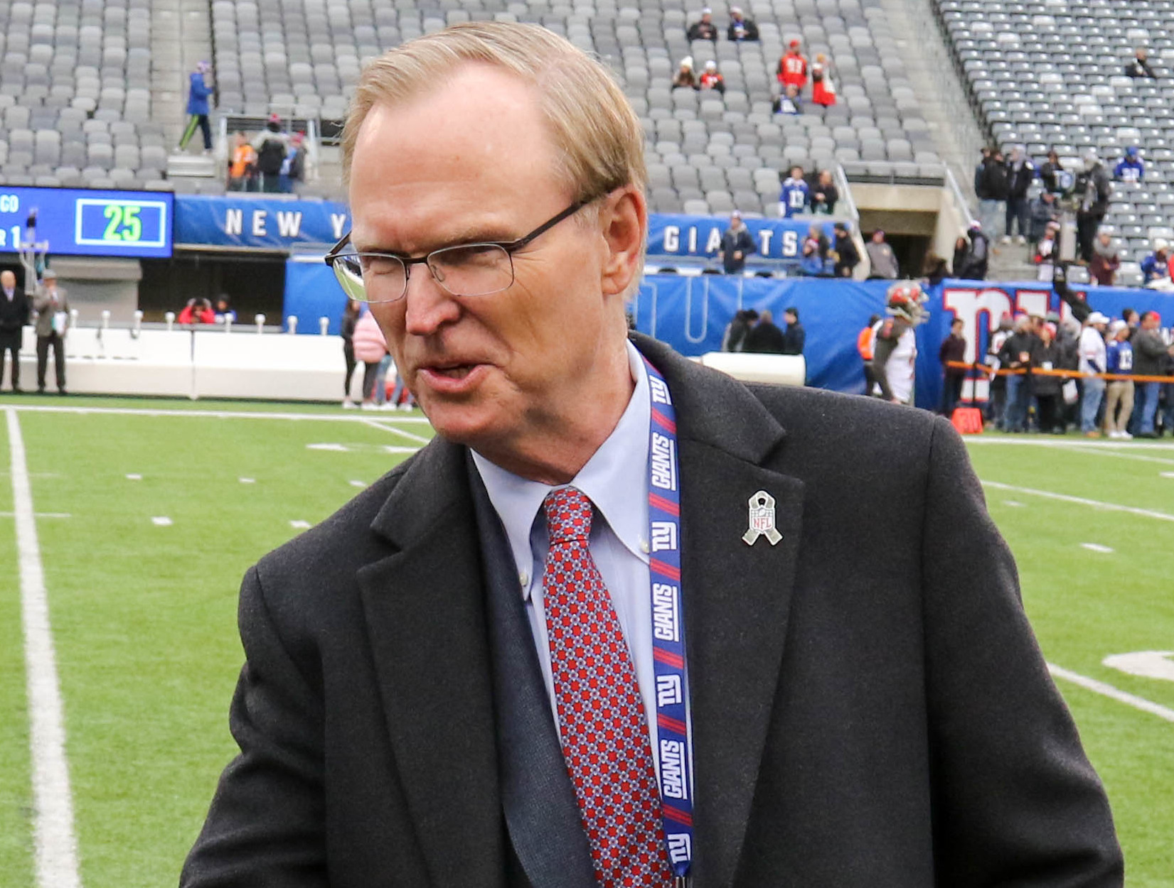 New York Giants owner, John Mara, greeting personnel of U.S. military as part of the Salute to Soldier event at a New York Giant's game against the Tampa Bay Buccaneers Sunday, Nov. 18, 2018 at Metlife Stadium. (U.S. Army Photos by Brandon O'Connor)